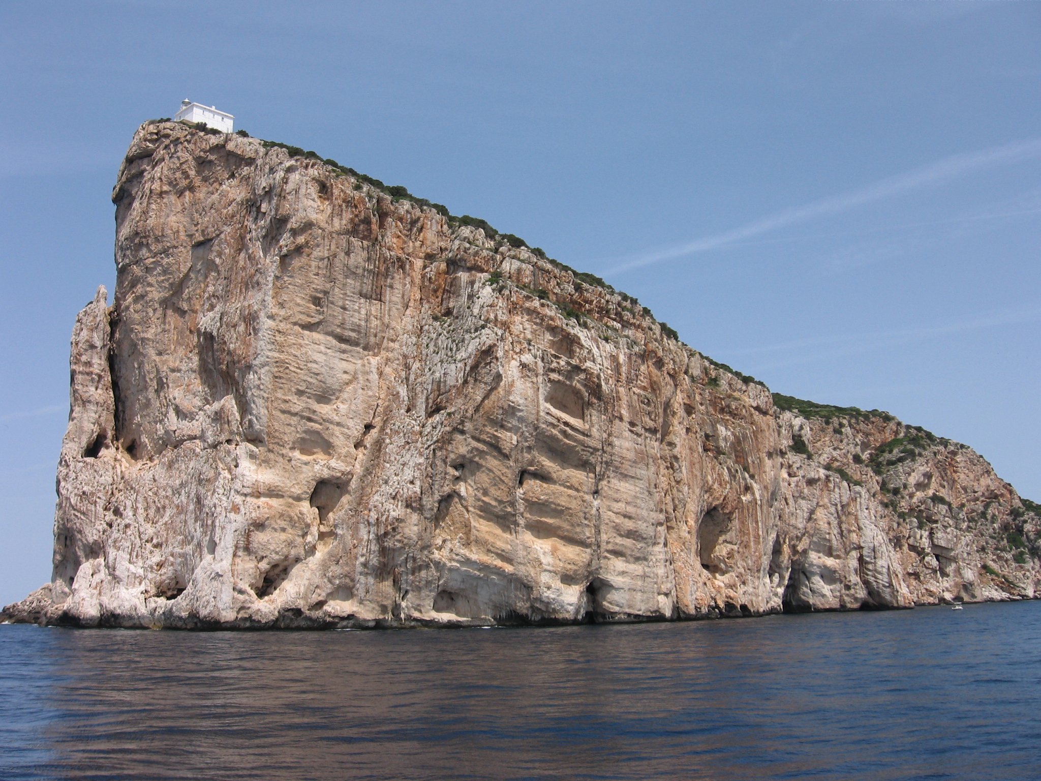 Capo Caccia